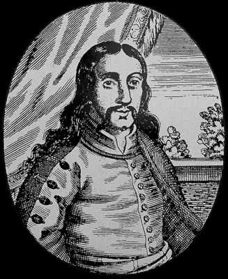 An etch of Fran Krsto Frankopan, a croatian poet and politician